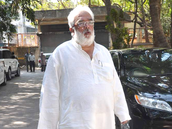 Rahul Rawail at the funeral of O P Dutta at Mumbai.